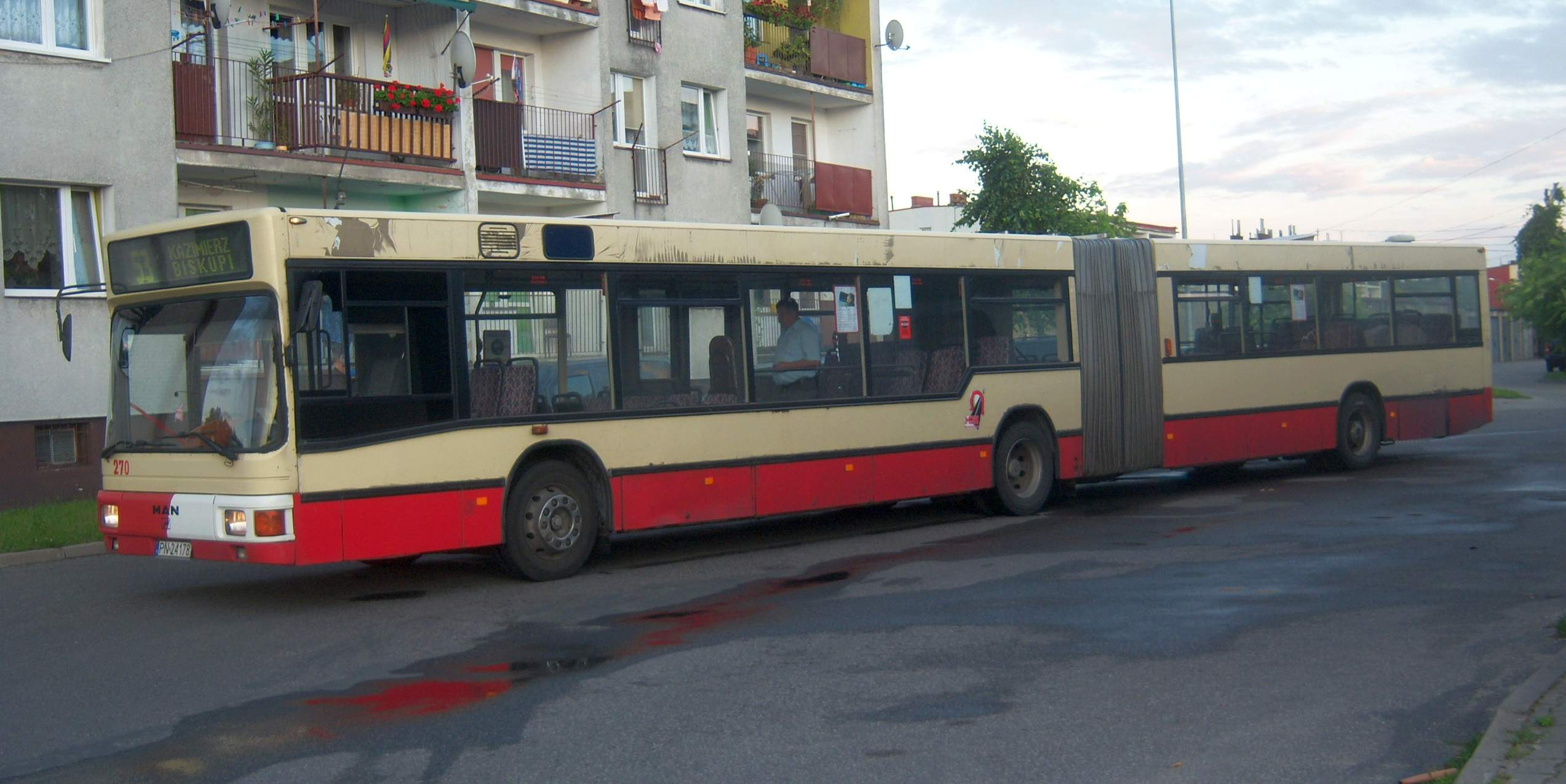 MAN NG272(2) bus (#270) in Kazimierz Biskupi near Konin, Poland. Built 1994, MZK Konin operator.